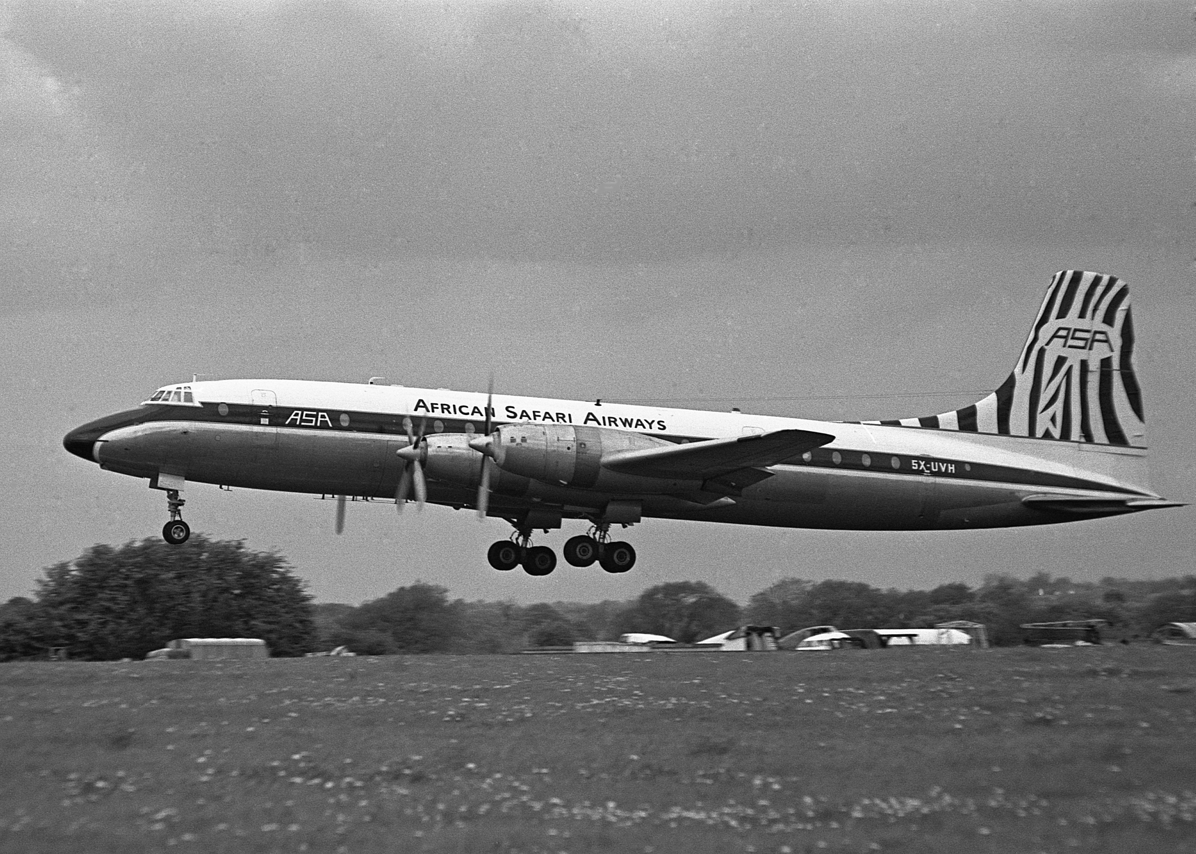 Originally delivered to El Al as 4X-TGD in 1959 (and briefly leased by them in March 1963 to British United as G-ASFU), this aircraft was sold to Globe Air in 1965 as HB-ITC before joining ASA in late 1967. It is shown here lifting off from Southend on 11 May 1968. It was re-registered 5Y-ALT in April 1970 and passed to African Cargo AW in late 1973, eventually being withdrawn at Stansted in May 1975, where it was promptly broken up for spares and its remains passed to the Fire Training School there. Photo: Richard John Goring (Transportraits)